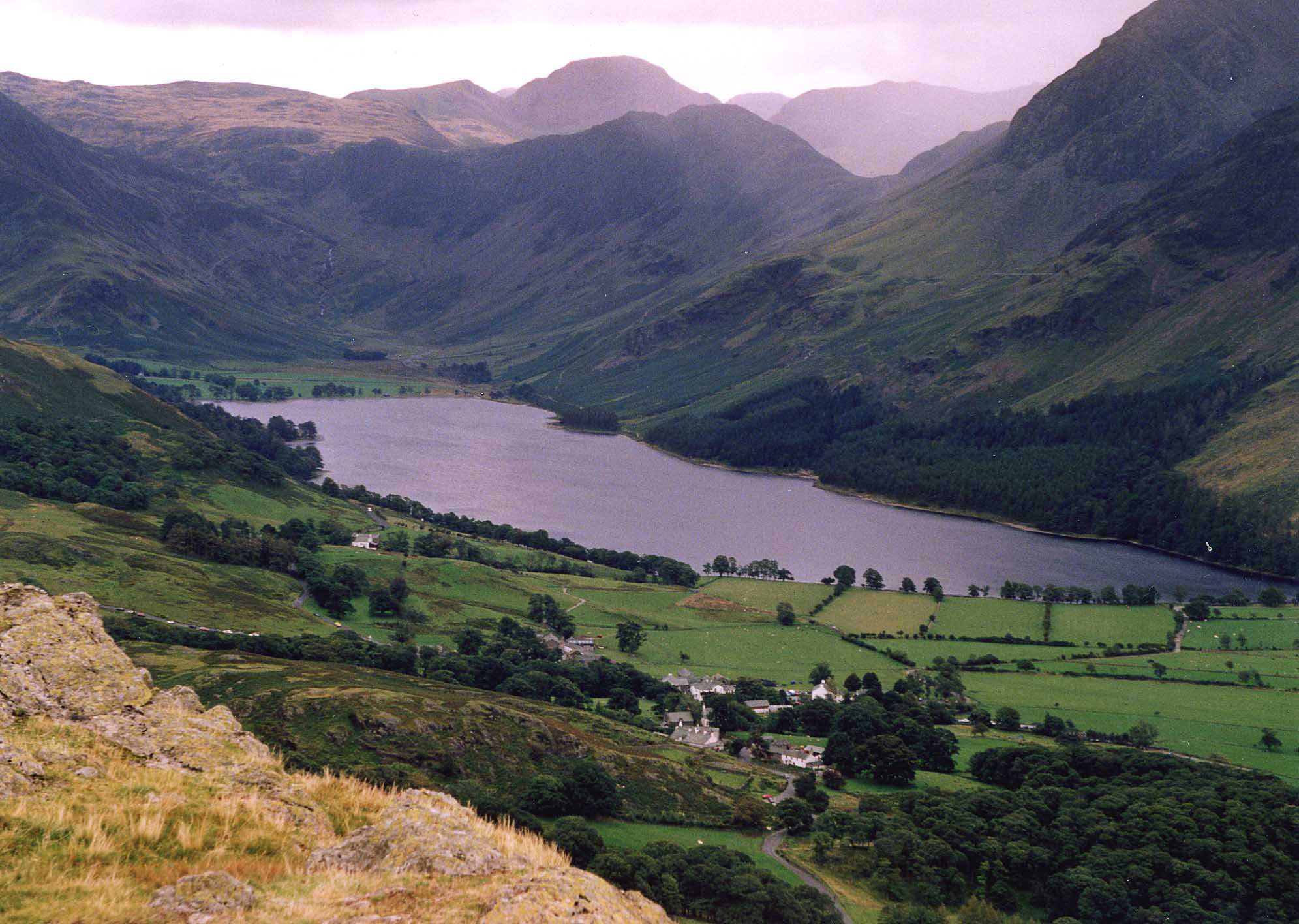 Personal picture taken by Mick Knapton